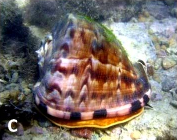 photo of Cassis tuberosa.